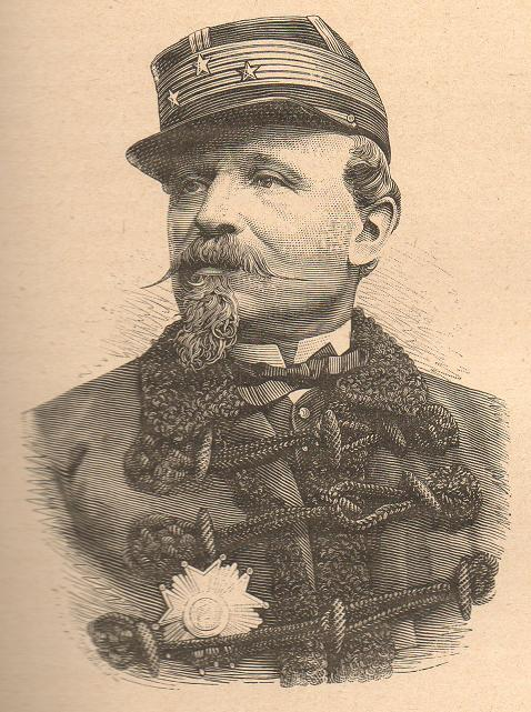 Portrait of General Chanzy (1823-1883)